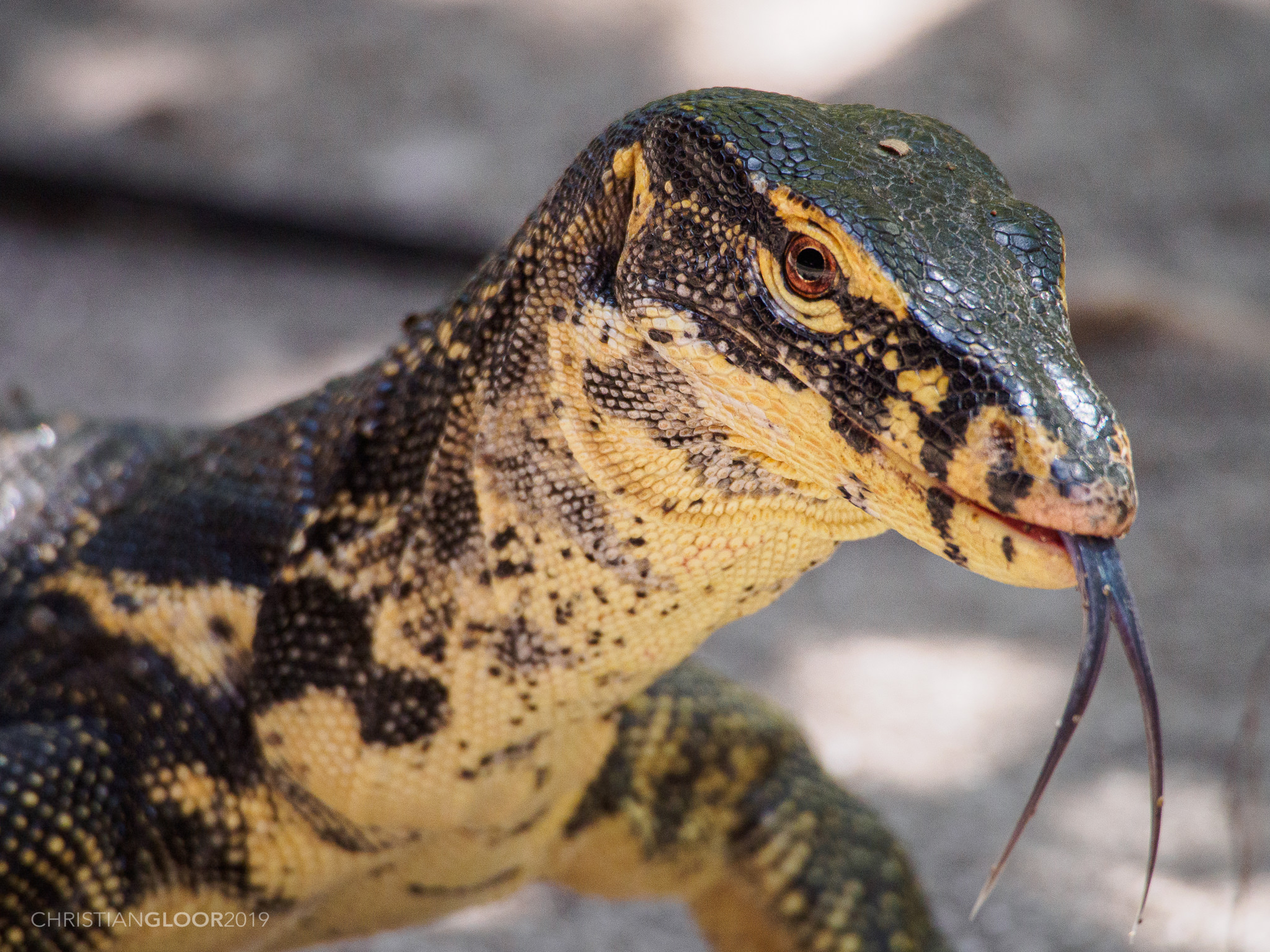 Everyday, we have some Water monitor (Varanus salvator) coming to the staff canteen to get some scraps of food dropped (not always by accident) by the staff eating there. As they are used to our presence, they are easy enough to approach and observe. It took the opportunity today to capture a nice portrait of one of them, more than a meter long, that came very close. Of course, it wouldn't be the same without its tongue out.